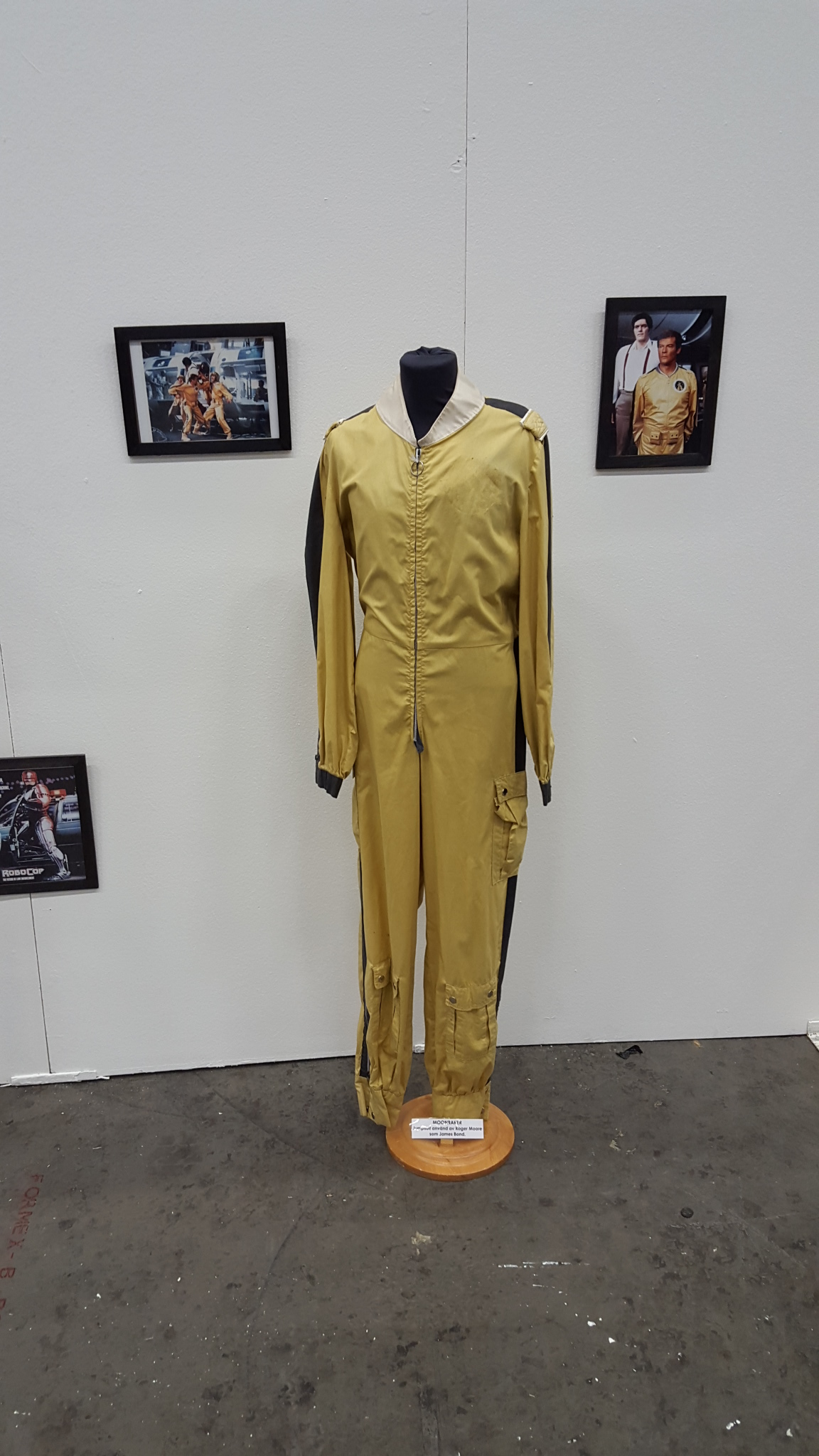 A jumpsuit från the film Moonraker at Stockholm International Fairs in 2015